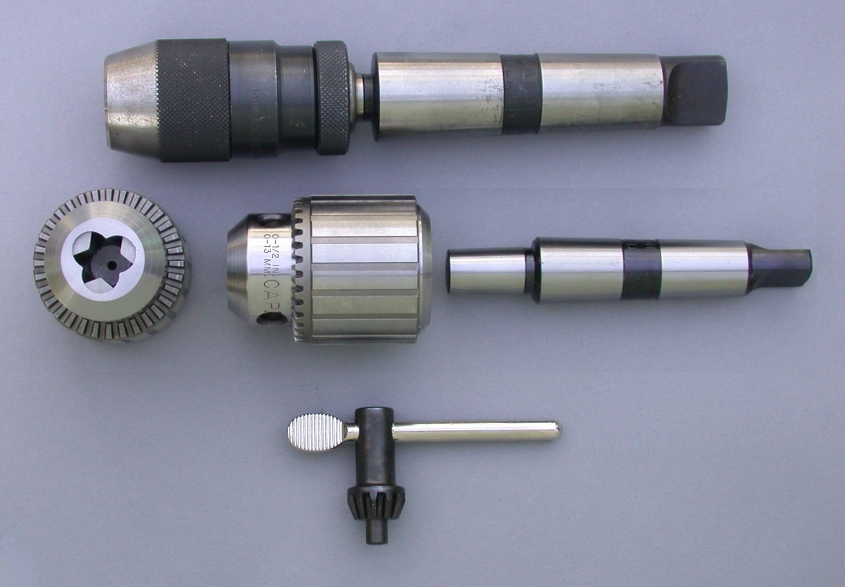 Keyless and keyed drill chucks. The top image is an assembled (mounted on a 4 morse taper arbor) keyless chuck. The center images show an exploded assembly of a keyed chuck (Jacobs brand). At the left is an end view of the chuck with a side view in the middle, at the right is the arbor; a Jacobs No. 6 taper to fit the chuck with a 3 morse taper to fit the machine spindle. At the bottom is the chuck key used to operate the keyed chuck.